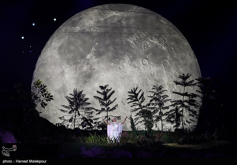 2018 Asian Games opening ceremony